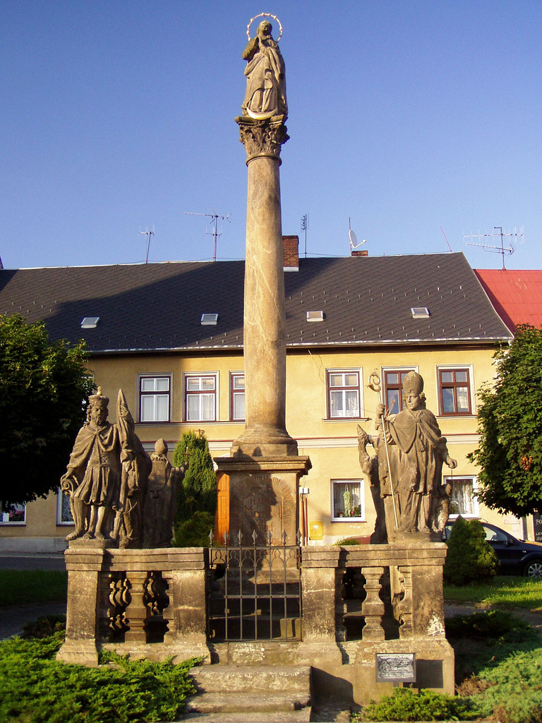 Marian column in town square of Hodkovice nad Mohelkou, Liberec District, Czech Republic. A chronogram gives 1710 as the year of its erection, the surrounding six statues of patrons saint of Bohemia were added during first half of 18th century, in the left St Wenceslaus, in the right St Procopius of Sázava.